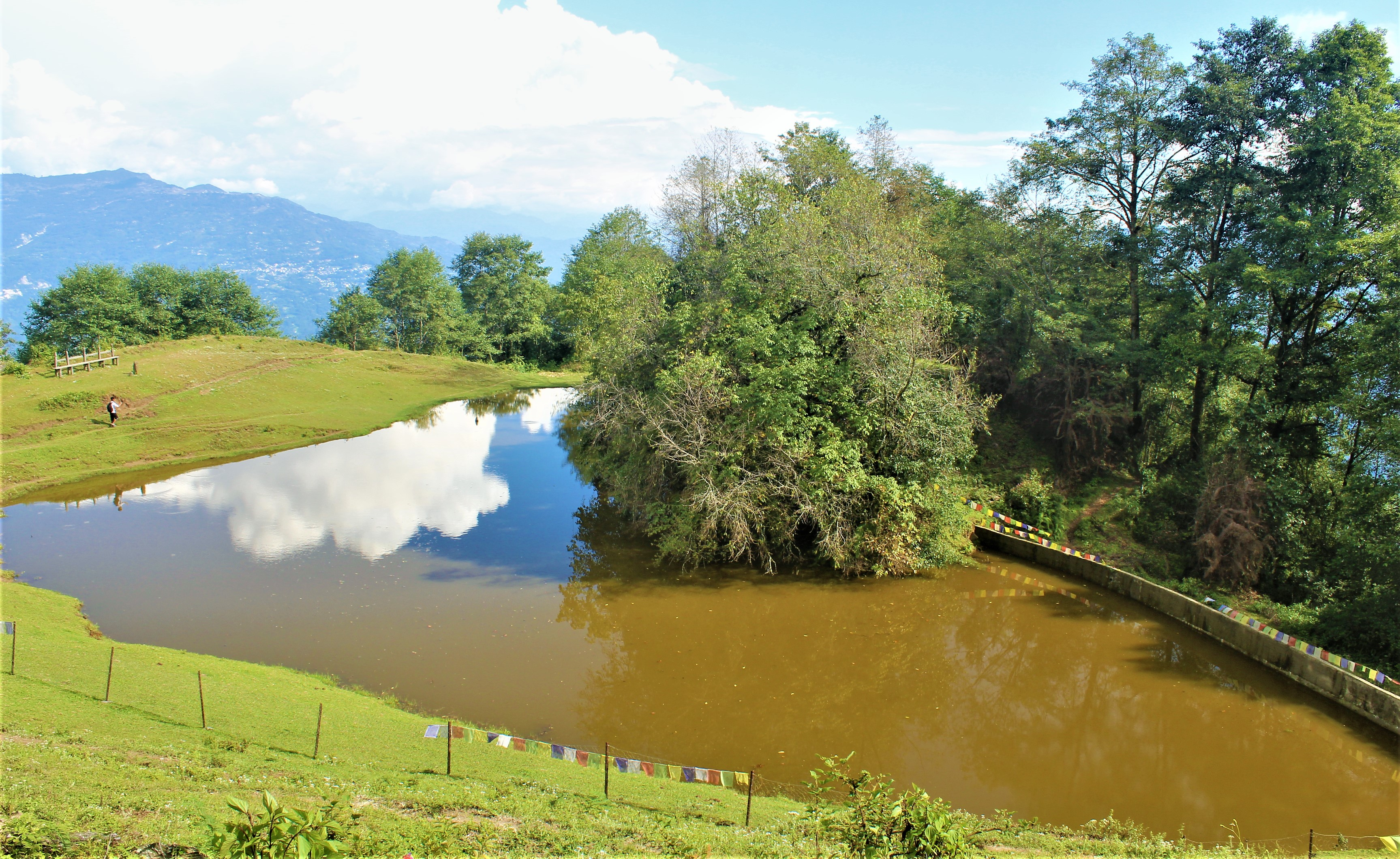 Gurase Lake in Meringden Gaunpalika.